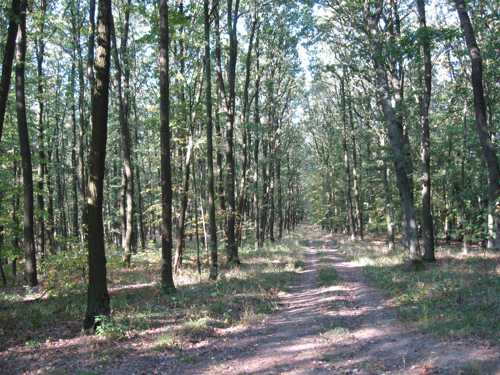 This is a photo looking west down the road that goes through the center of the Swiepwald near Koniggratz.